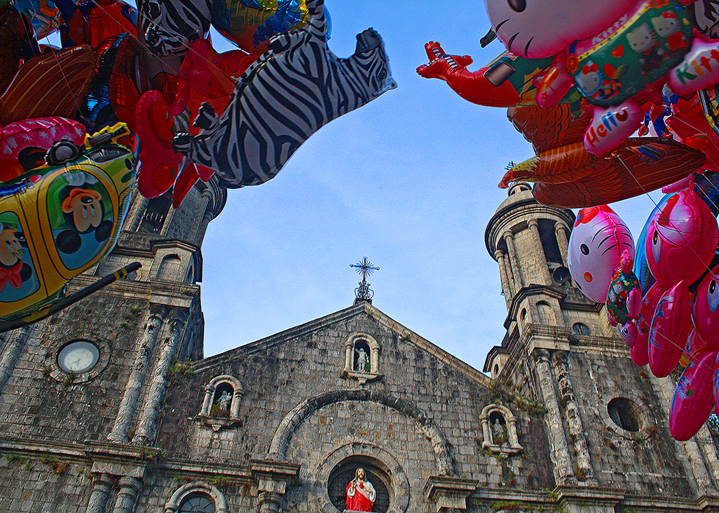 Framing the Cathedral of Bacolod with the use of colorful balloons.